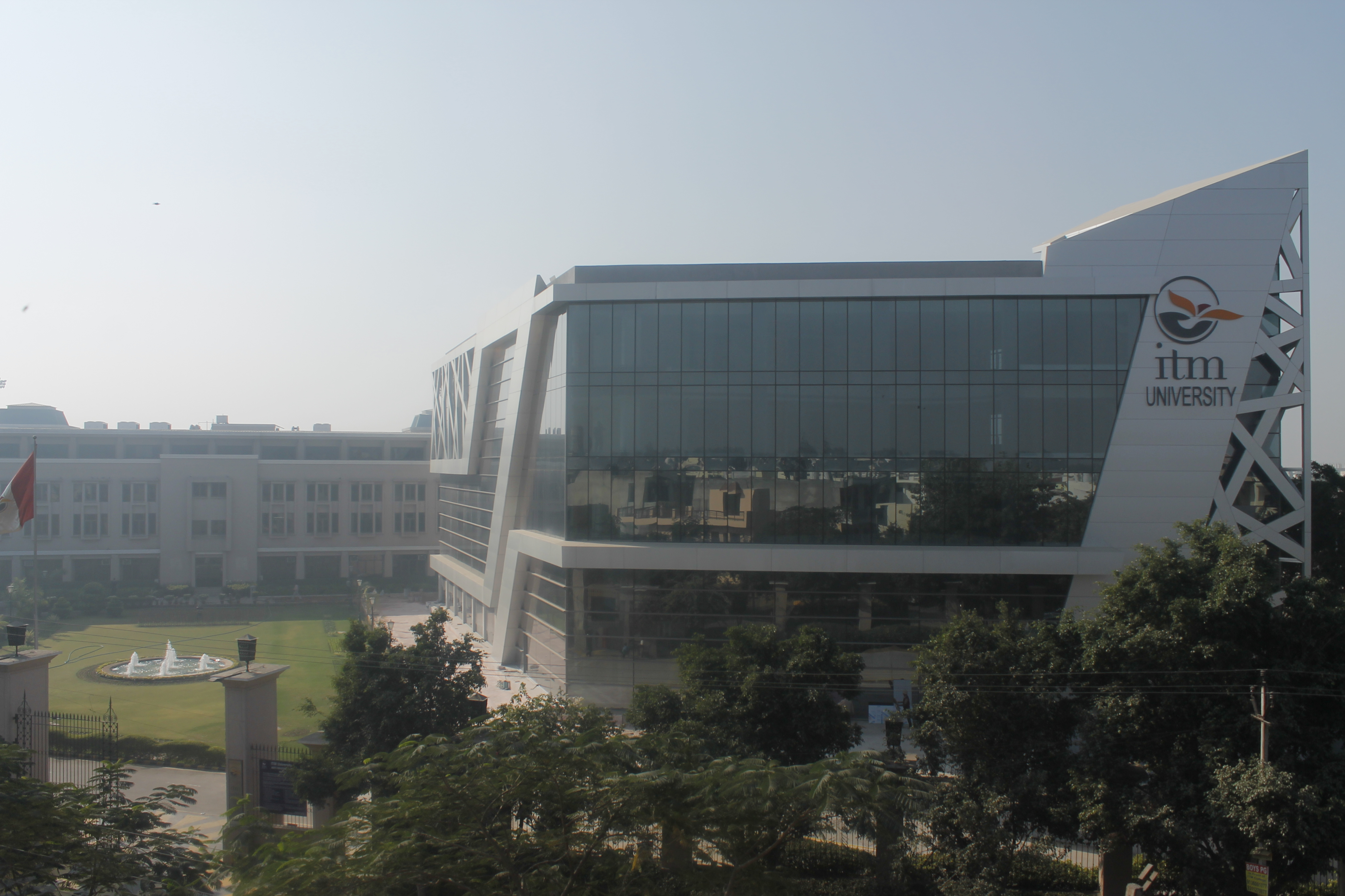 This is the view of the University from outside the gate.